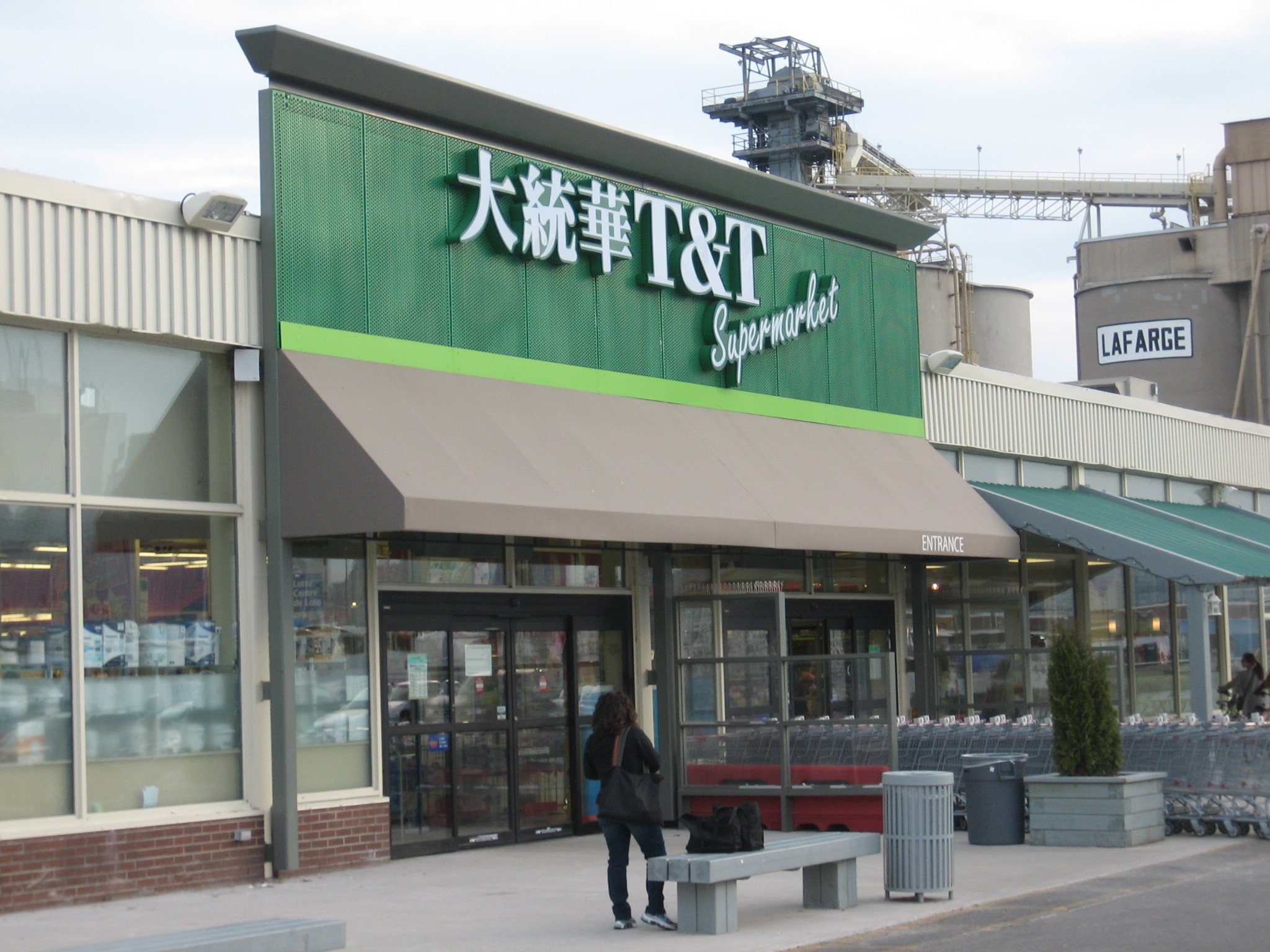 T & T Supermarket in Toronto